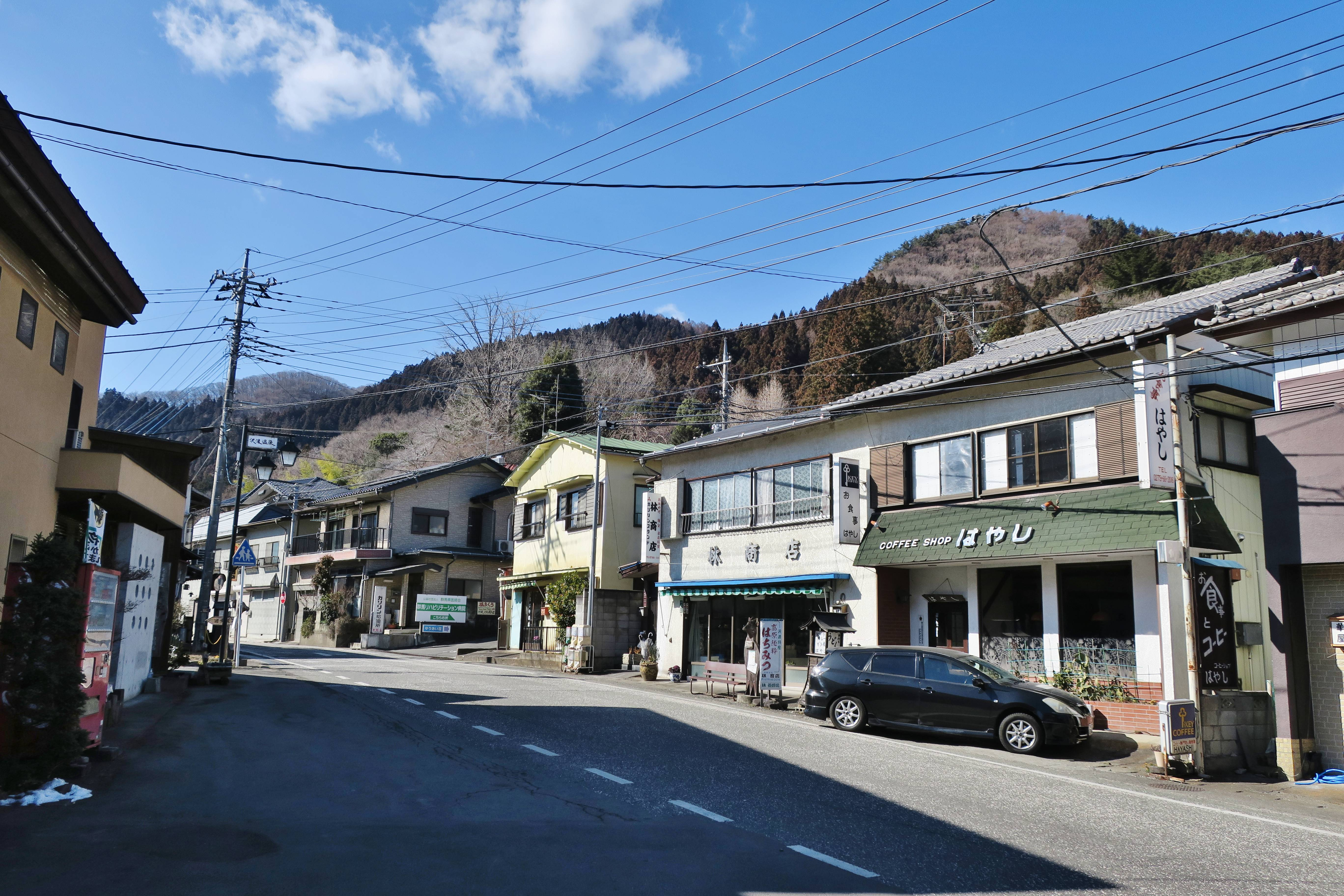 Sawatari Onsen (Nakanojō, Gunma).